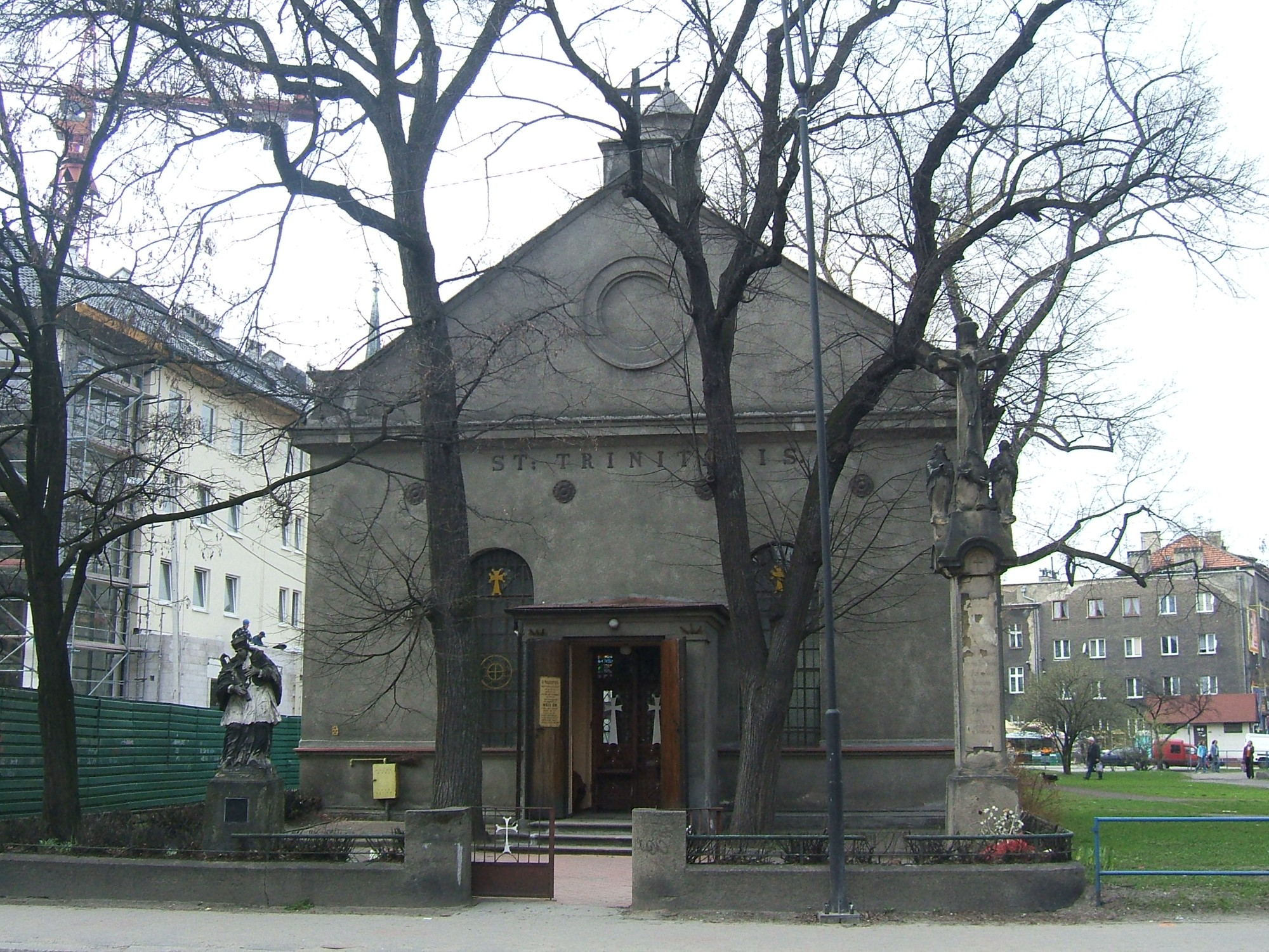 Holy Trinity church in Gliwicefrom 1838.